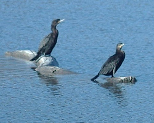 Neotropic Cormorants, Phalacrocorax brasilianus at the Bosque del Apache National Wildlife Refuge, Feb. 11, 2006. They may not be identifiable in the picture, but I identified them through a scope before taking the picture. —JerryFriedman 18:25, 15 February 2006 (UTC)